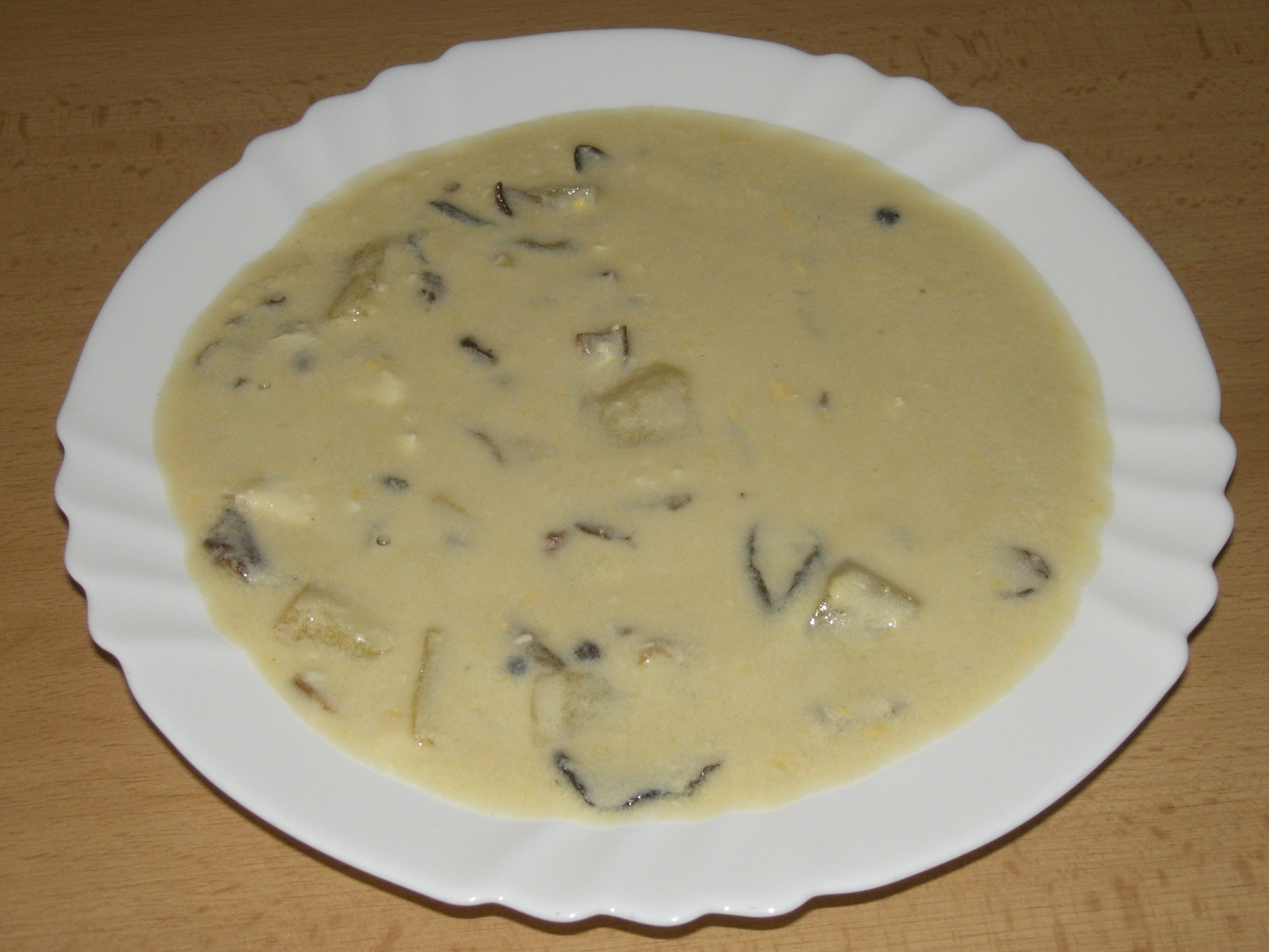 Typical South-Bohemia soup "kulajda".